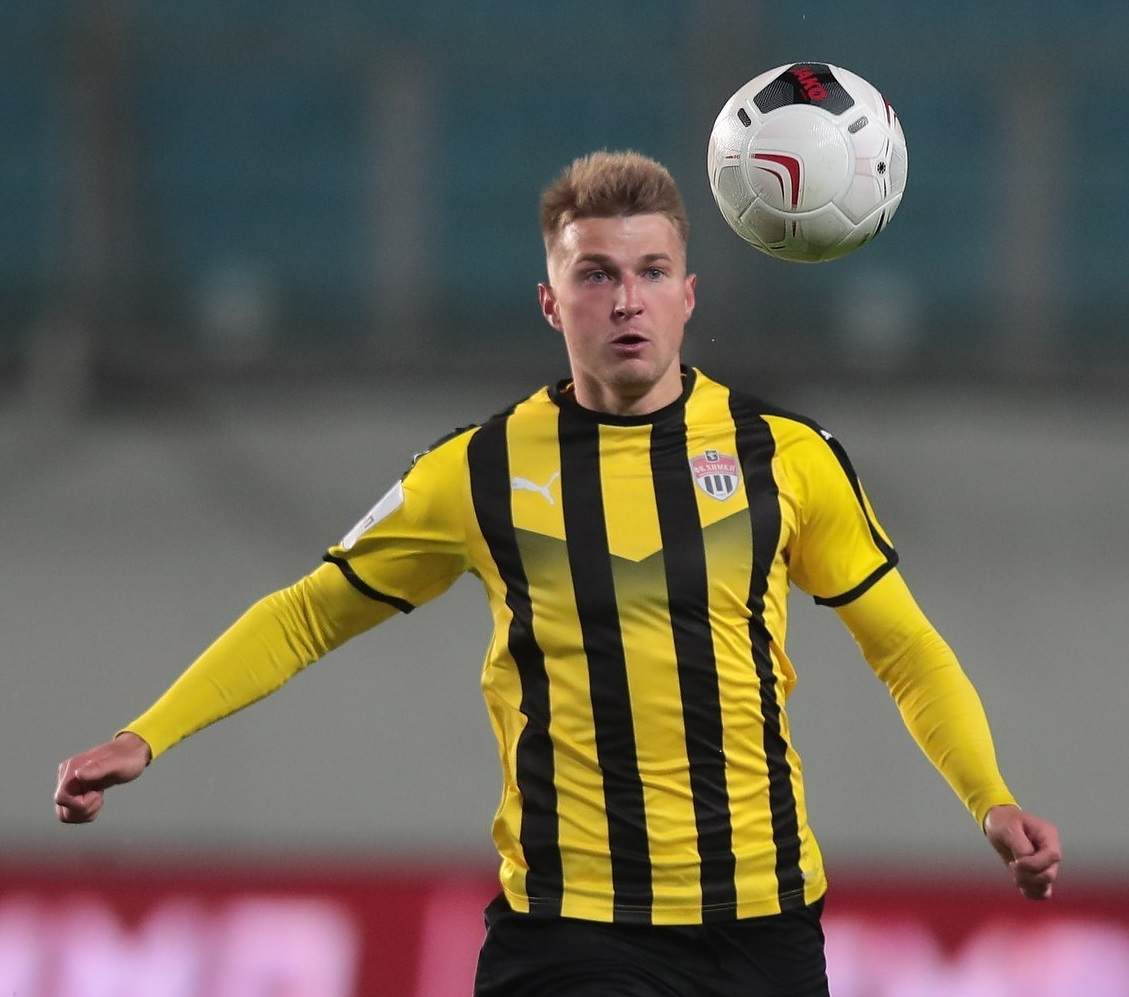 Artem Polyarus with FC Khimki in a Russian Cup quarterfinal against FC Torpedo Moscow.